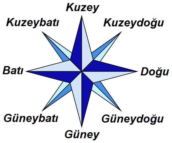 Compass card with Turkish directionsTürkçe: Türkçe yönlerle pusula kartı